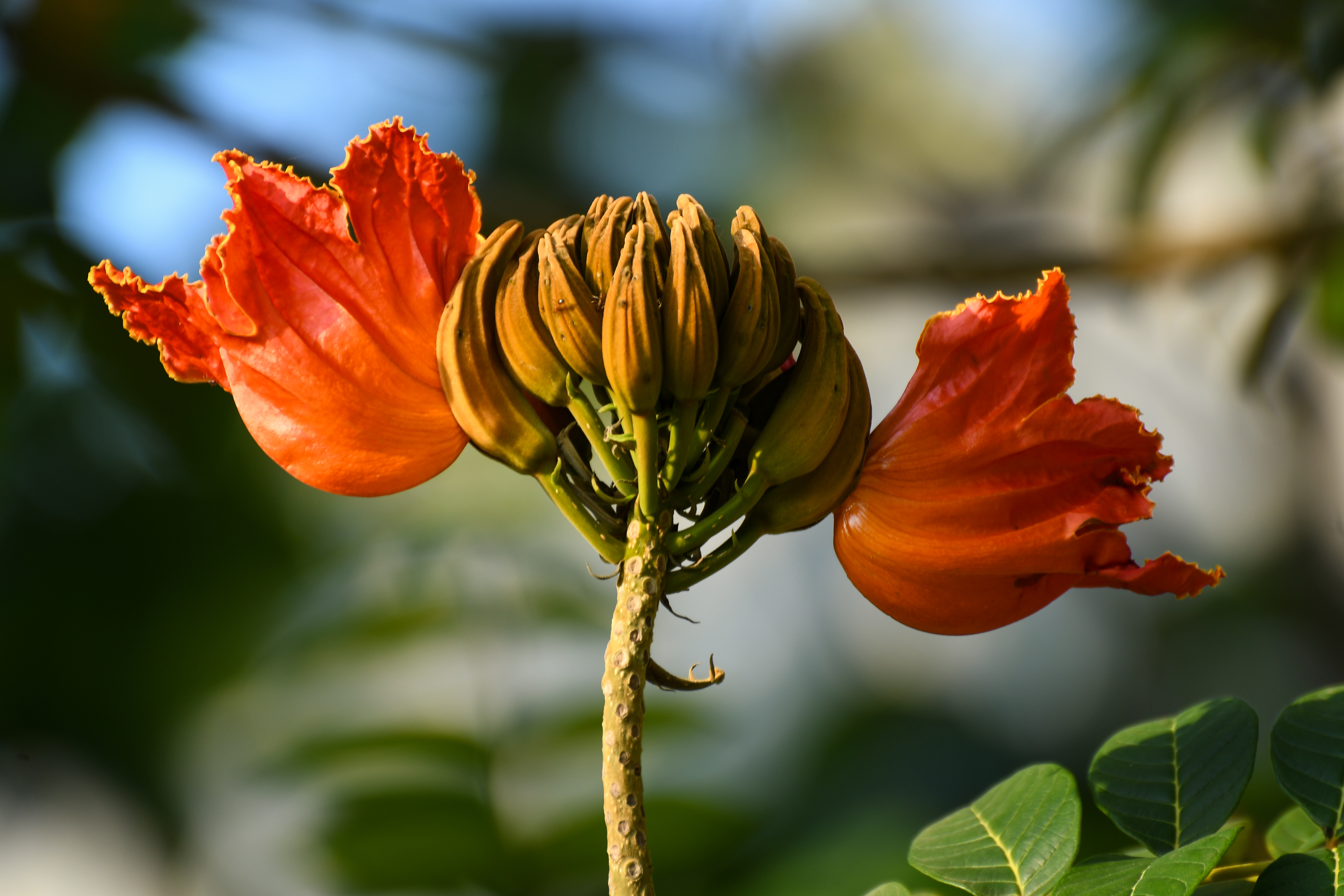 Spathodea campanulata